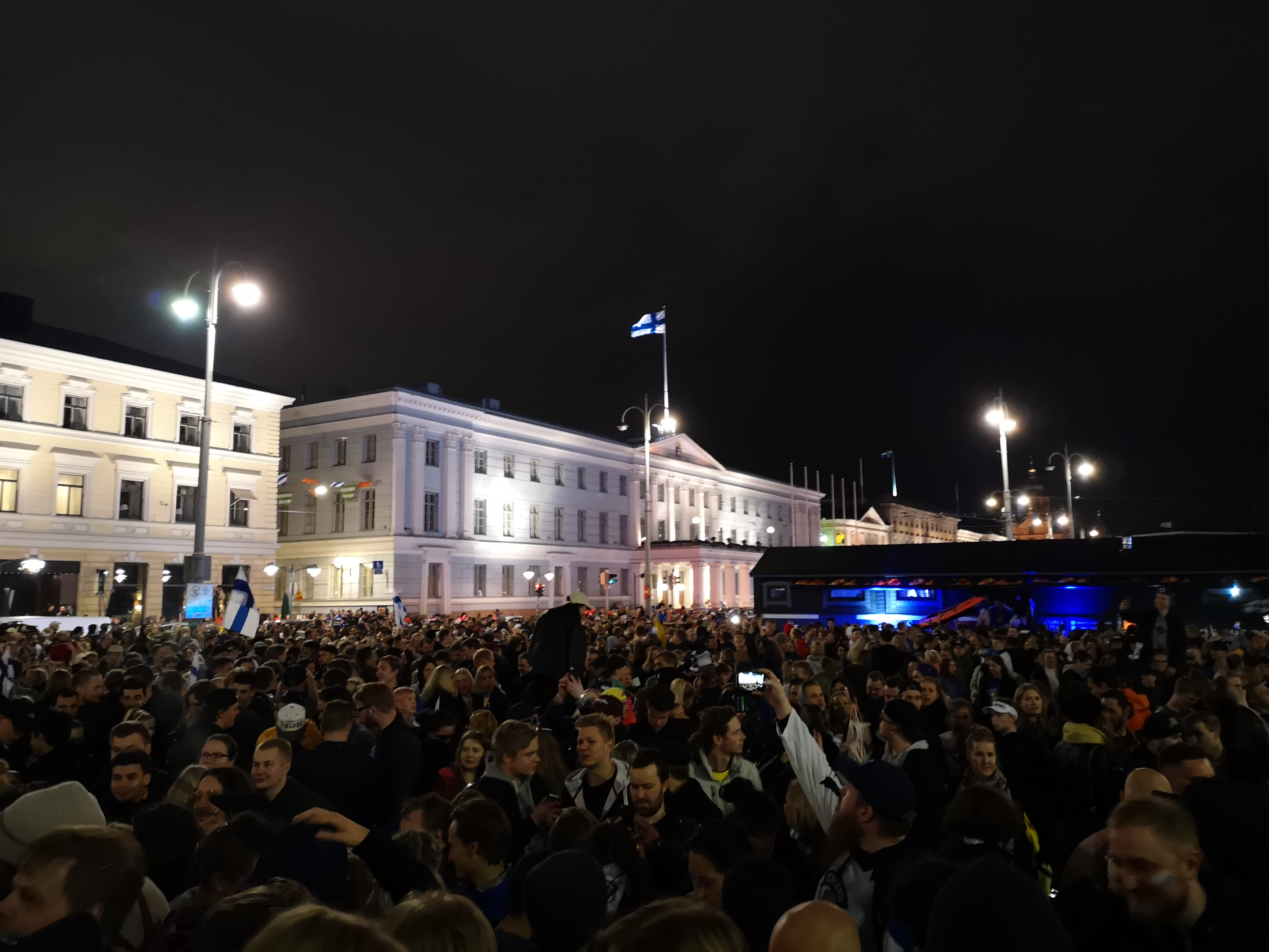 Helsinki City Hall on the left, and a sauna truck on the right, at the celebrations of the Finnish IIHF World Championship victory 2019 at Helsinki Market Square.